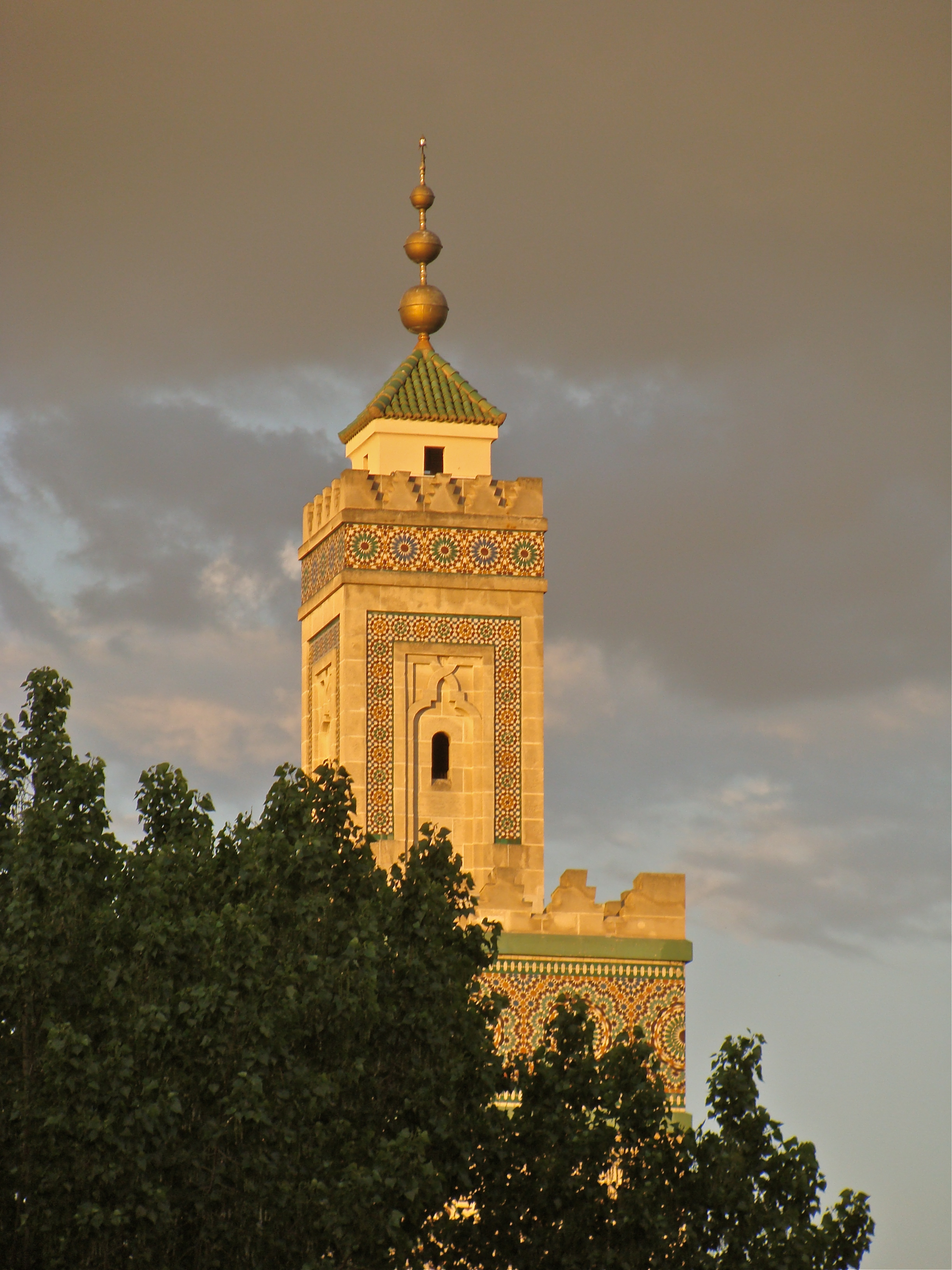 a natural stormy evening light over the minaret of the Great Mosque of Paris